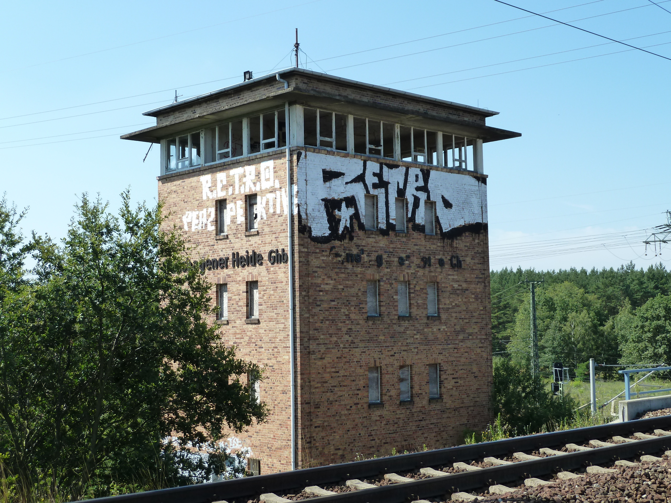 Genshagener Heide station, south of Berlin, former switch tower